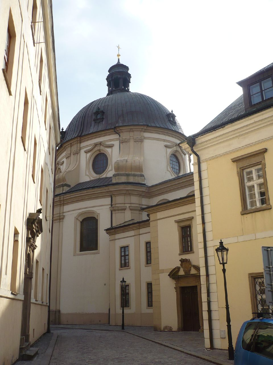 Kromeriz – Churt of Saint Jan Krtitel